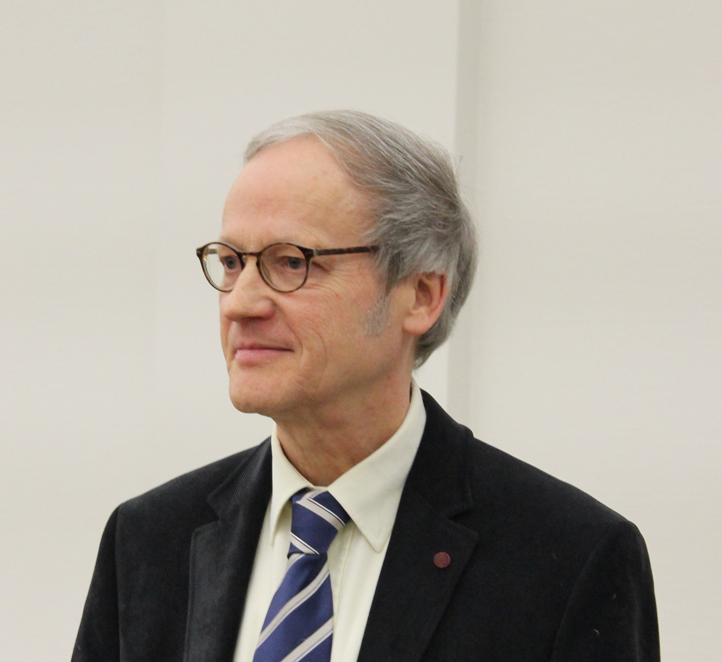 Portrait of the author Thomas Berger